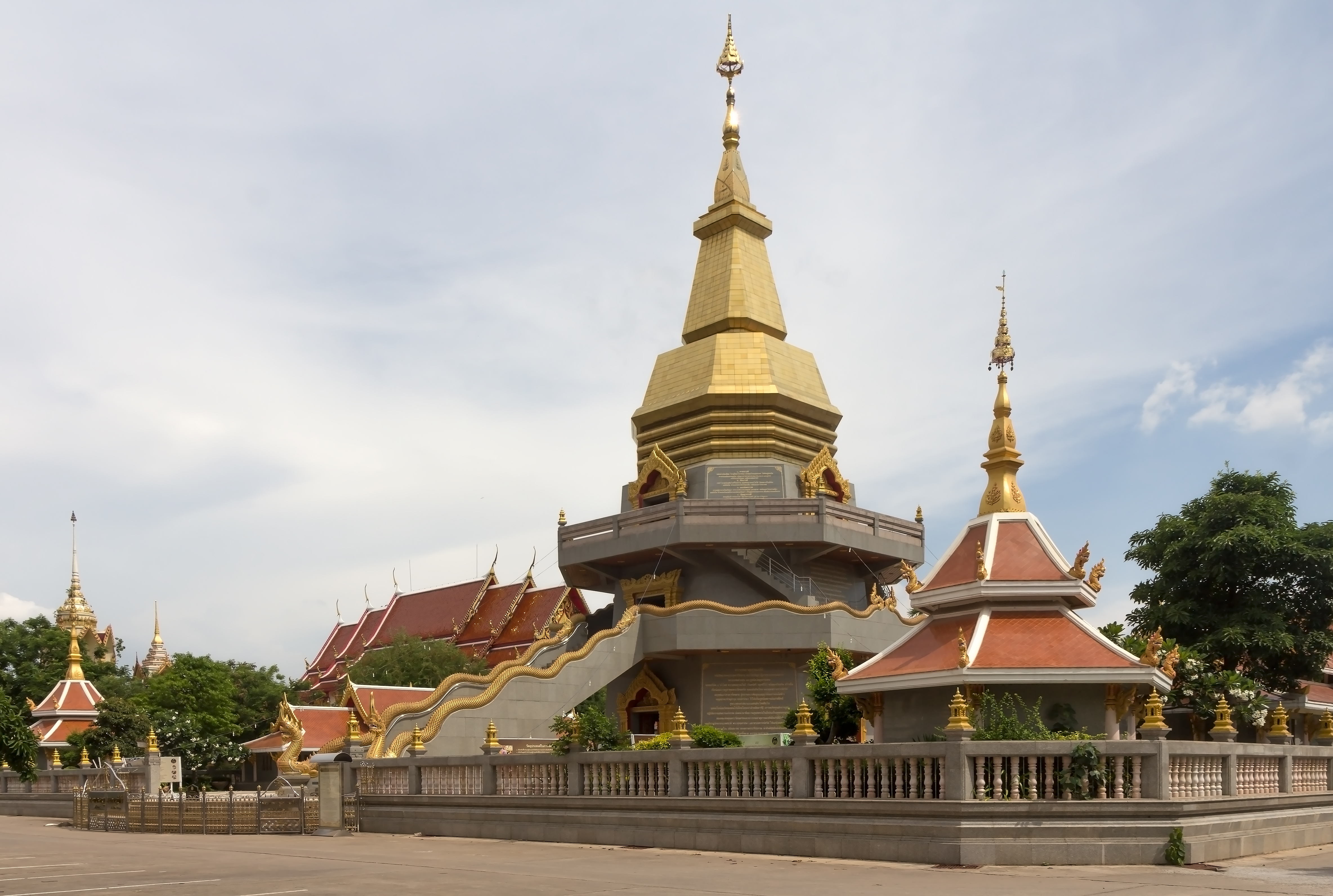 Stupa of the Wat Pothisompon, Udon Thani